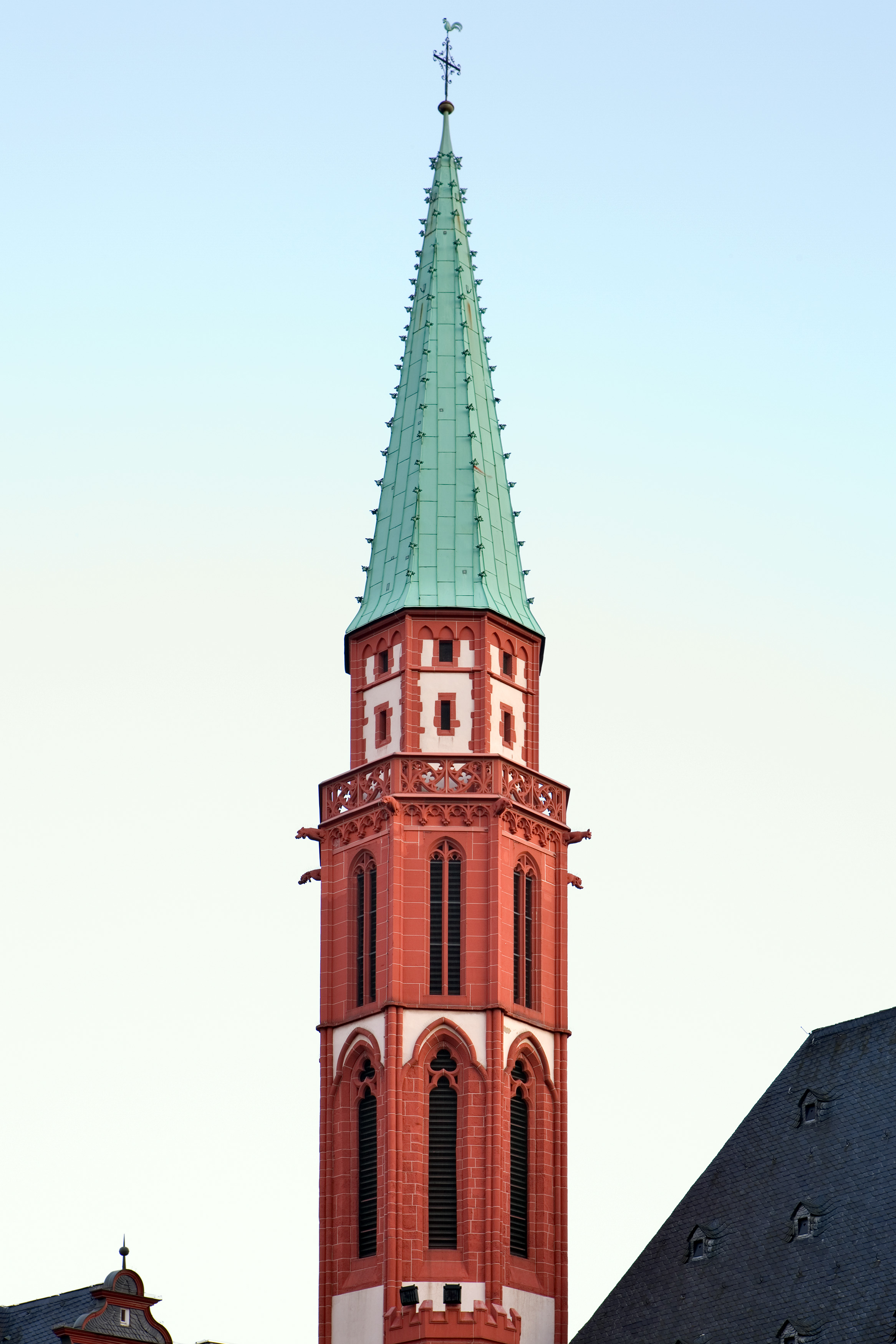 Frankfurt on the Main: Alte Nikolaikirche (Old Saint Nicholas Church), detail of the early-gothic / late-gothic upper floors of the tower